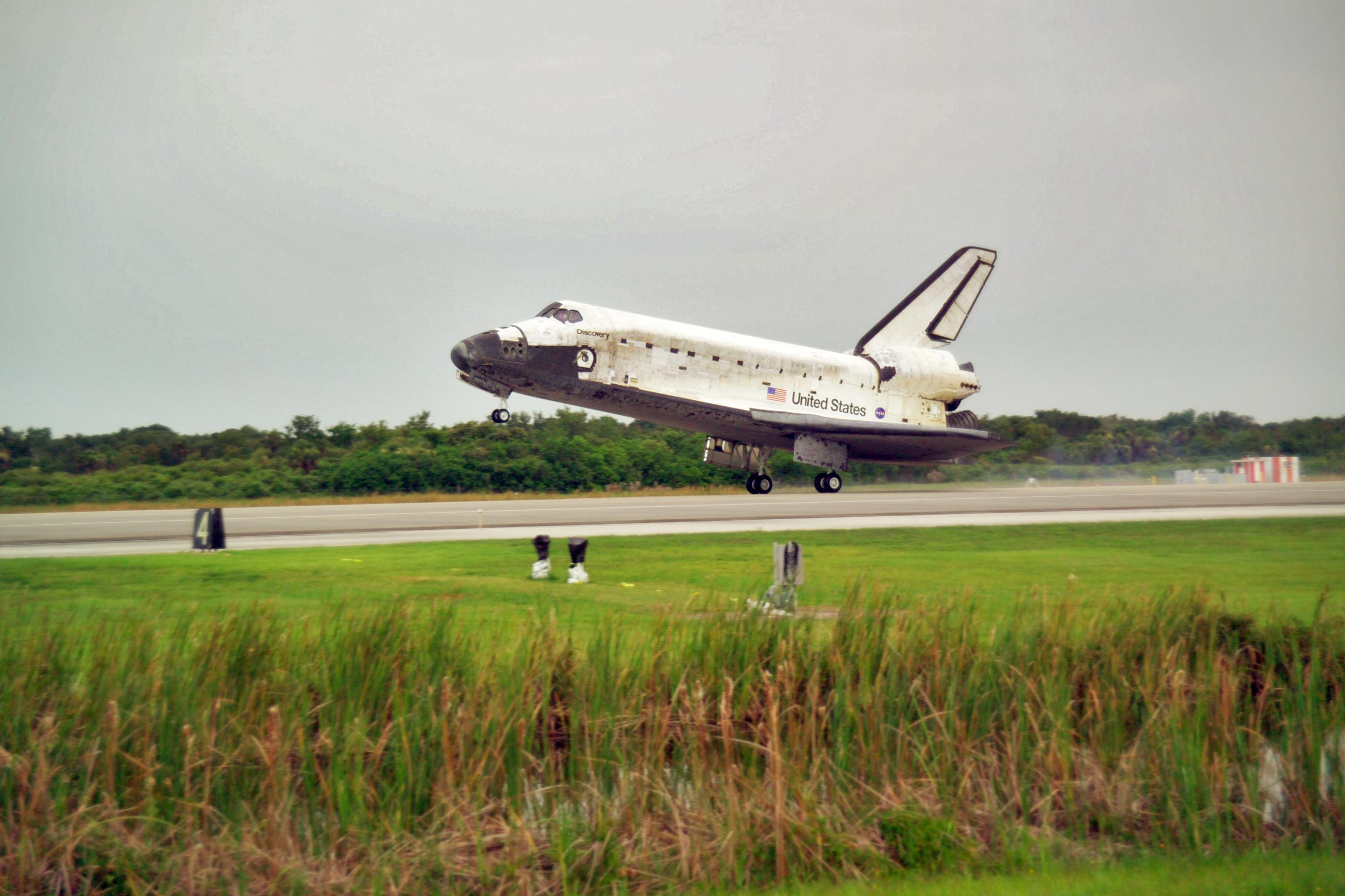 Space Shuttle Discovery makes a picture-perfect landing at Kennedy Space Center, Fla. after a 13-day mission to the International Space Station. Landing occurred at 9:14 a.m. EDT.